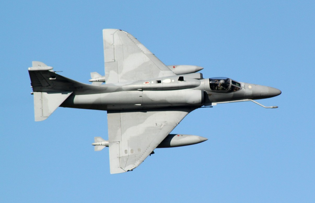 Argentine Air Force A-4AR Fightinghawk during Air Fest 2010 show at Moron Air Base, Buenos Aires Argentina